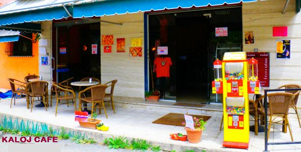 A bar on Rruga Mustafa Lleshi in Tirana, Albania is decorated for the 2010 World Cup.